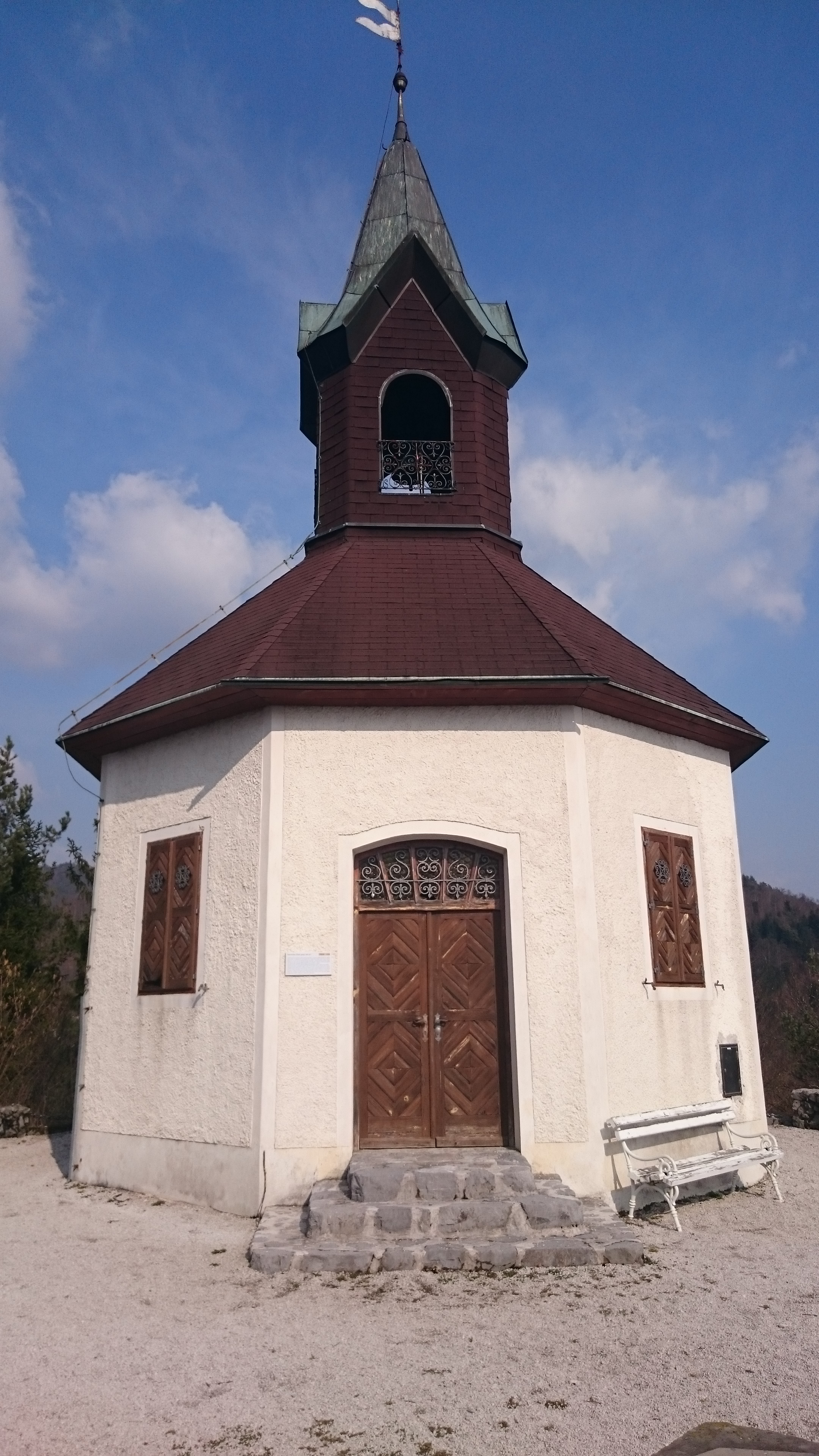 Polhov gradec Kalvarija